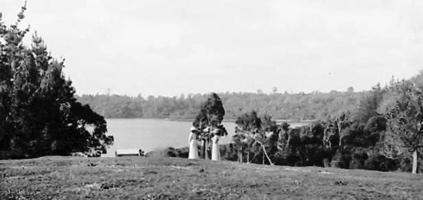 Two young women chatting on a hill overlooking Lake Papaitonga, Horowhenua, NZ